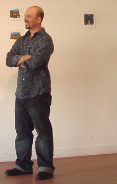 American artist and writer Franklin Einspruch photographed at his 2008 exhibition "The Importance of What We Care About" at Common Sense, in Edmonton.